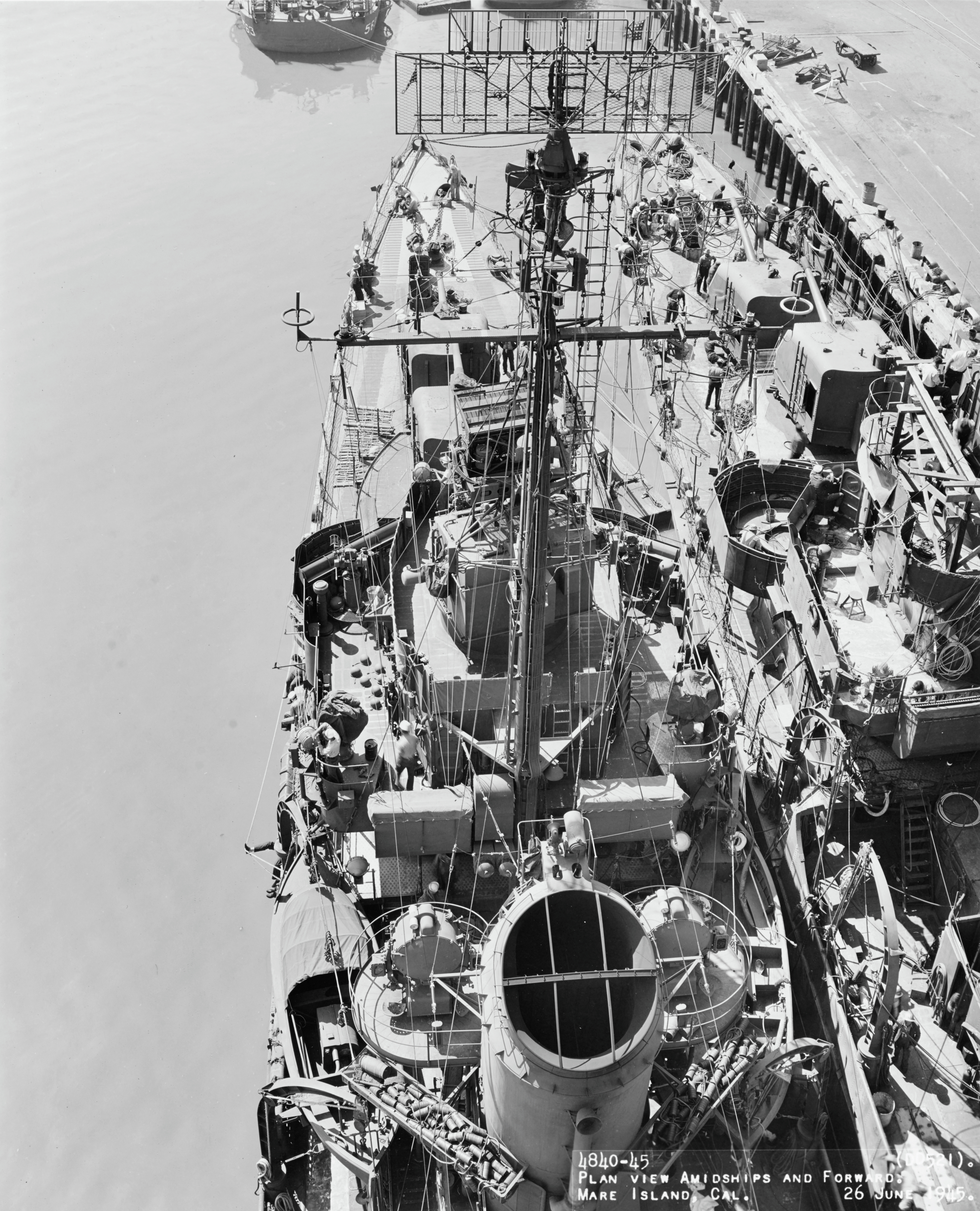 The U.S. Navy destroyers USS Kimberly (DD-521), left, and USS Young (DD-580) at the Mare Island Naval Shipyard, California (USA), on 26 June 1945. Note the cap of Kimberly's forward smokestack, and the antenna for her SC-2 air search radar atop the foremast. The stern of USS Ross (DD-563) is visible in the background.